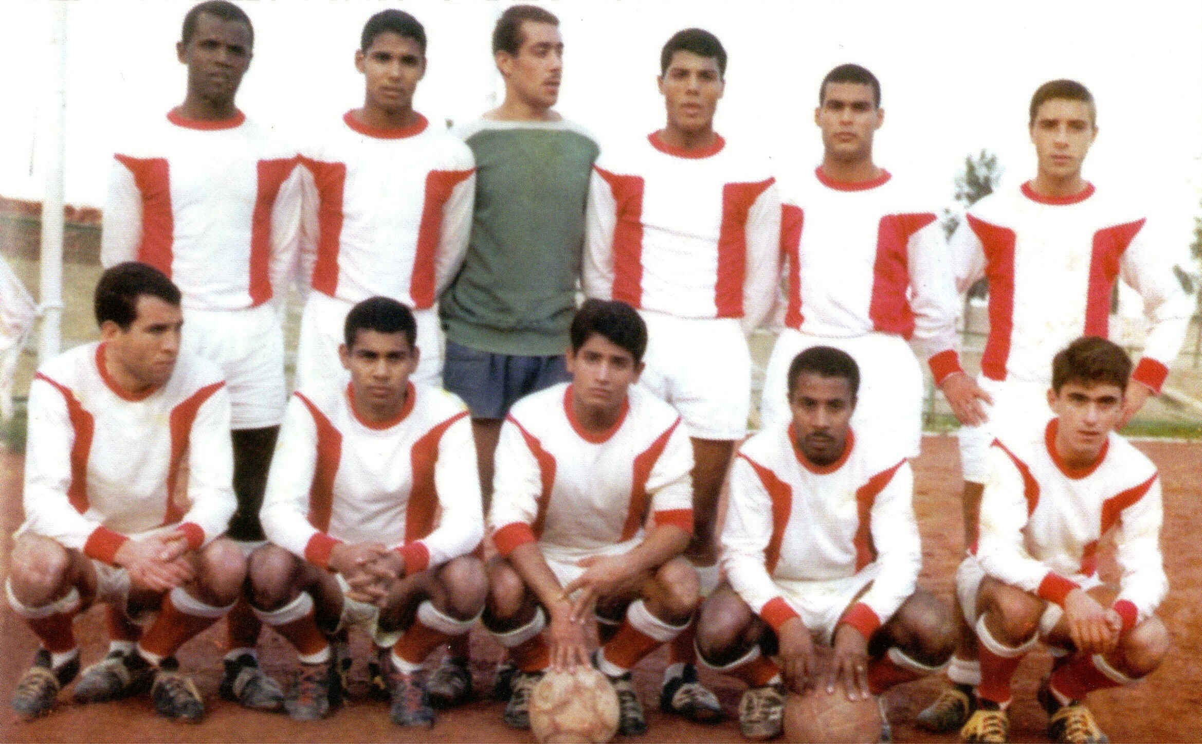 Club africain 1962-63